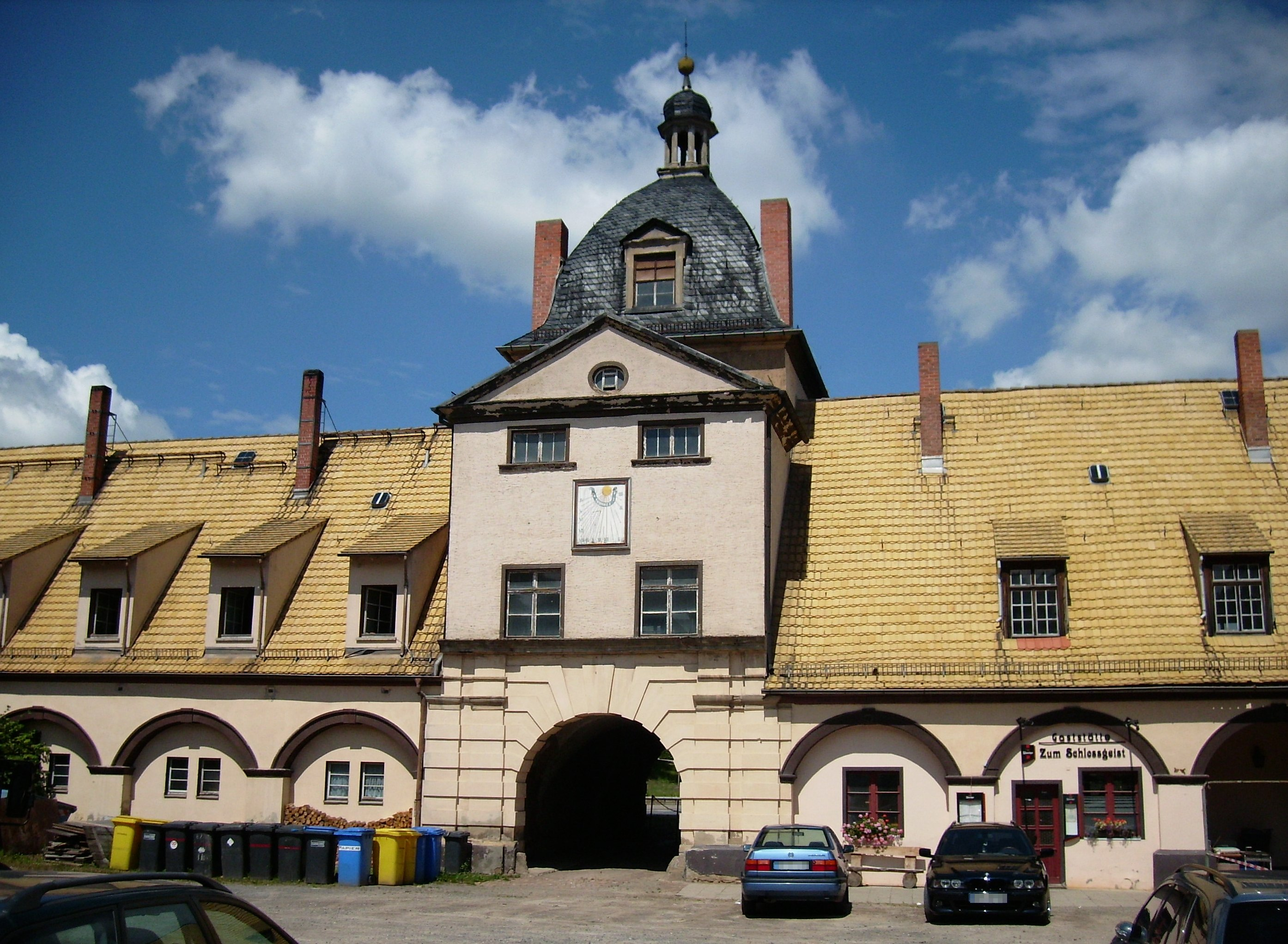 Gateway of the castle in Bad Köstritz (Greiz district, Thuringia). The actual castle was demolished in 1969/72.